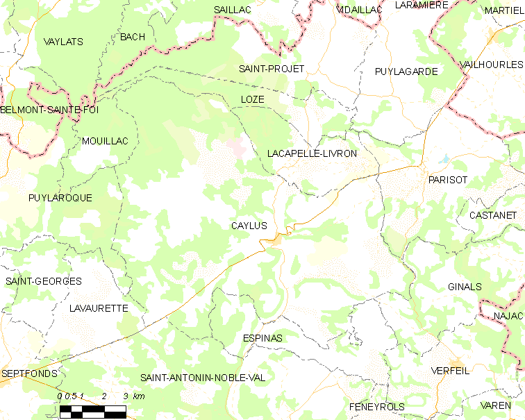 Map of French municipality Caylus